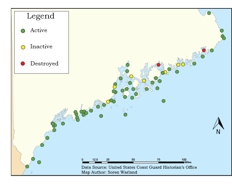 The geographic locations and operational status for all of the lighthouses along the Maine coast.